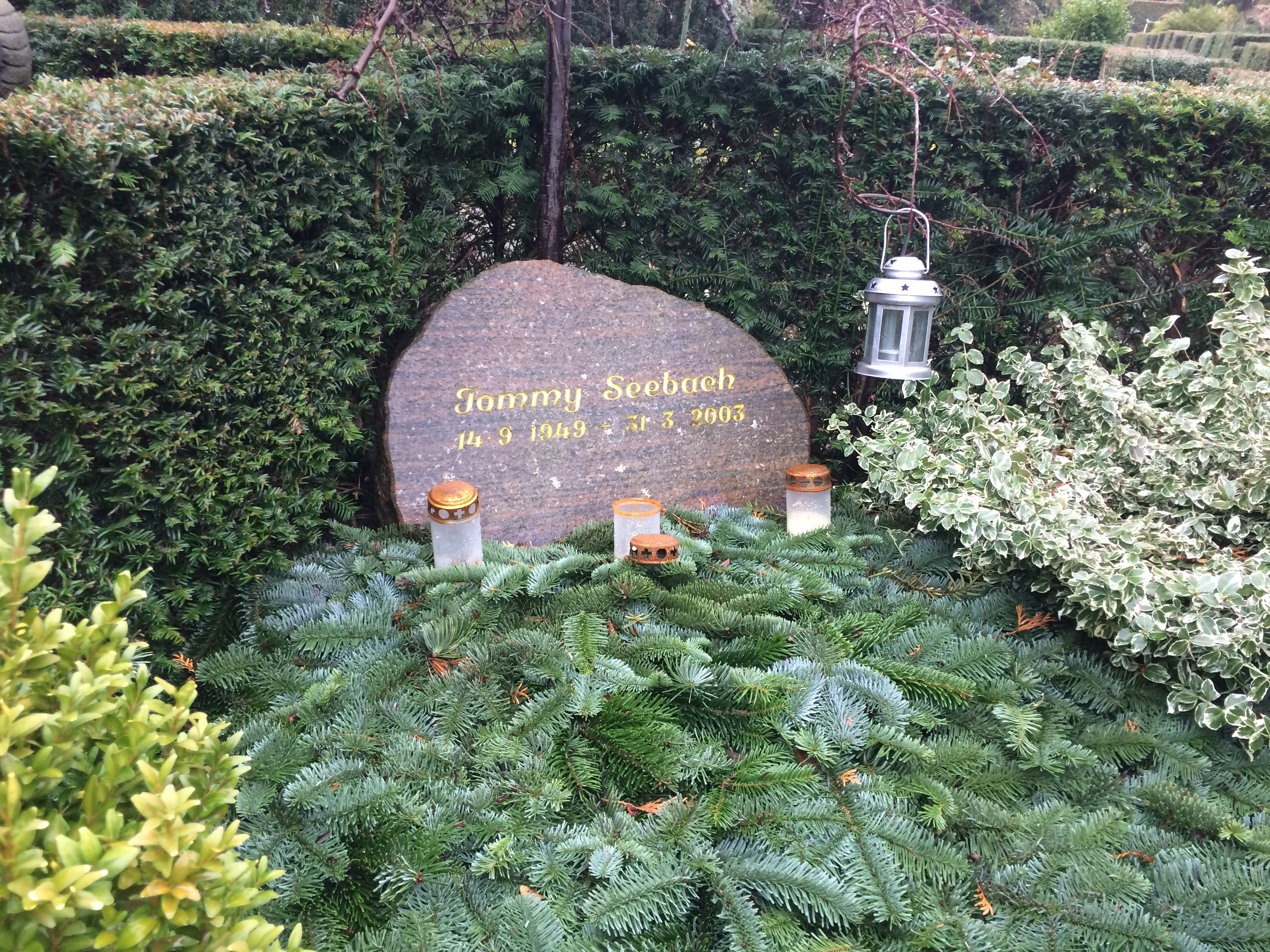 Gravestone of Danish musician Tommy Seebach